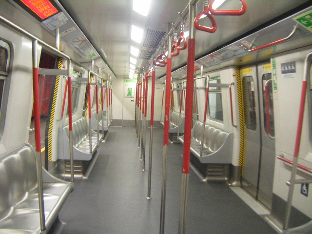 The MTR Modernization Train Interior.